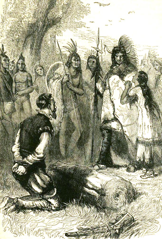 Illustration related to the history of the United States